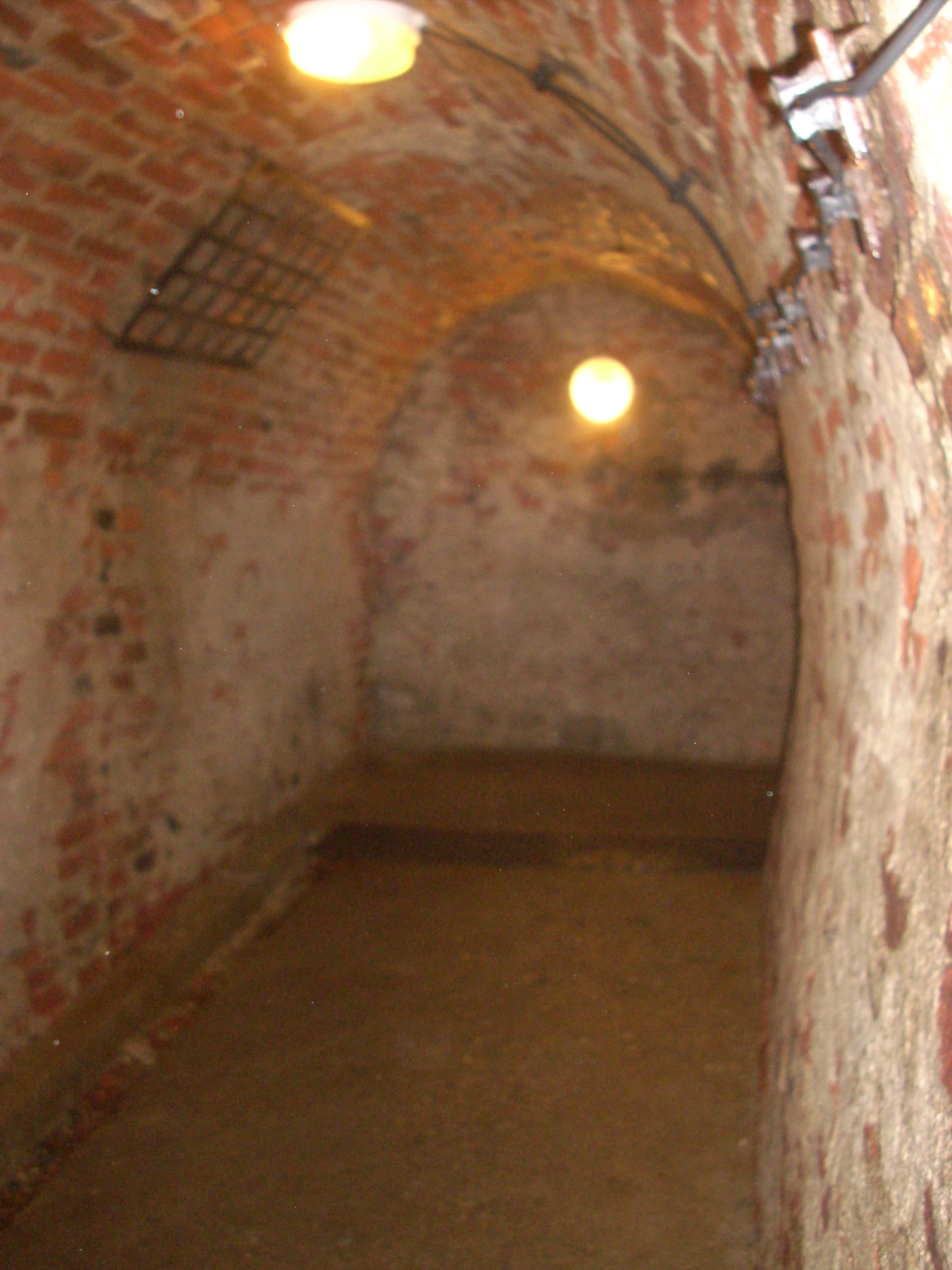 Brick corridor of underground in Jihlava